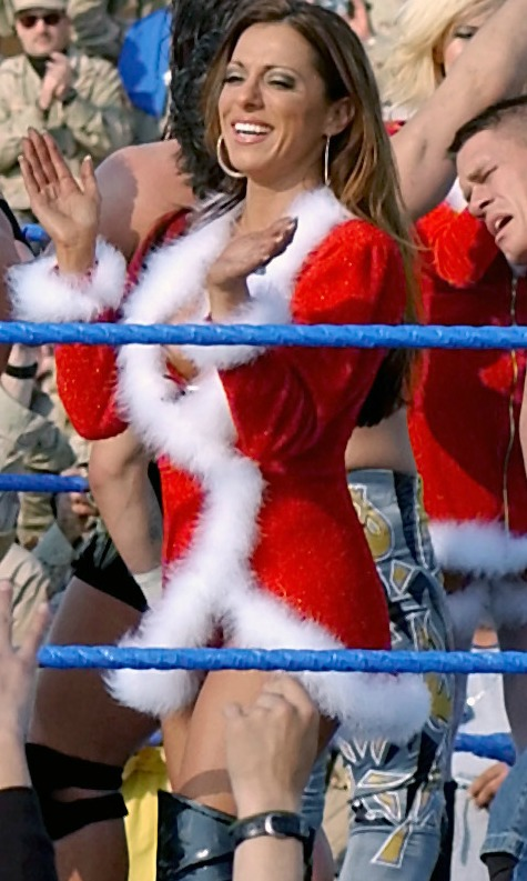 Stone Cold Steve Austin, one of the World Wrestling Entertainment (WWE) superstars performing for the Coalition troops at Camp Victory, Baghdad International Airport (BIAP), Iraq (IRQ) during Operation IRAQI FREEDOM.